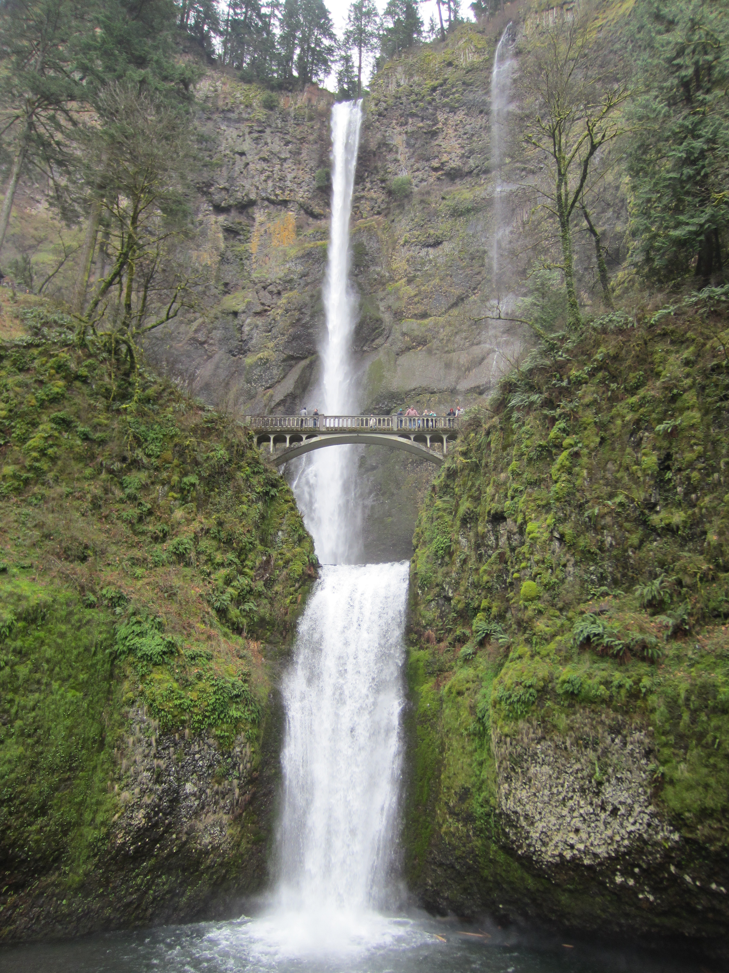 Multnomah Falls, Oregon in March 2012